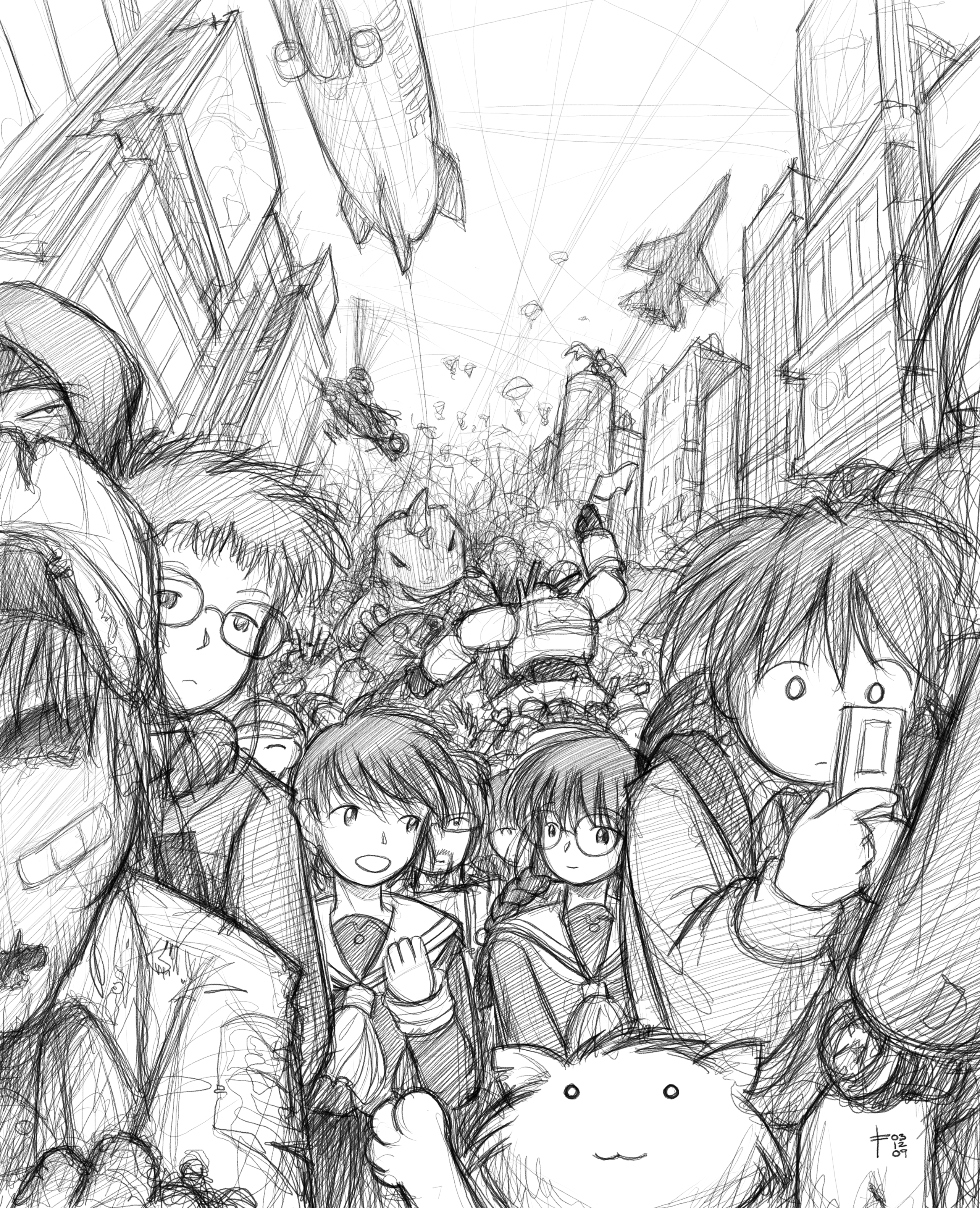 Art from the author of Megatokyo showing a packed scene, made by the original artist.